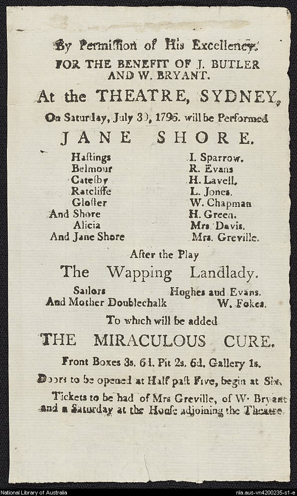 The earliest extant Australian imprint dated Saturday, 30 July 1796 and an artefact associated with the First Fleet. A playbill printed in Sydney on a small wooden screw press and type which came out with the First Fleet. Printed by the first Australian government printer George Hughes. It is advertising three theatrical performances to be held in Sydney and includes the names of actors, other company members (and Hughes) involved in the performances.